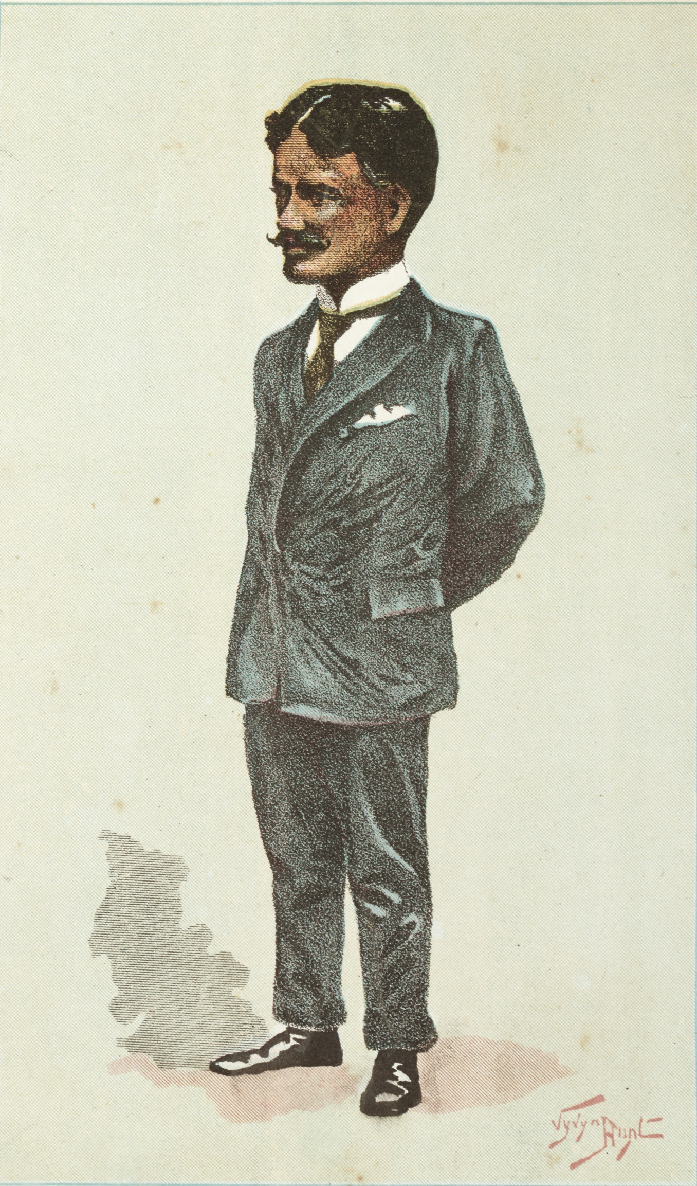 Caricatures, with names and nicknames of: "Mr Speaker" (Sir G M O'Rorke), "Mines" (The Hon A J Cadman), "Ironsand" (Mr E M Smith), "Hard to drive" (Mr W Crowther), "The Doctor" (Dr Newman), "The white flower" (Major Steward), "The Patriarch" (Mr A Saunders), "Haere Mai" (Mr Hone Heke).